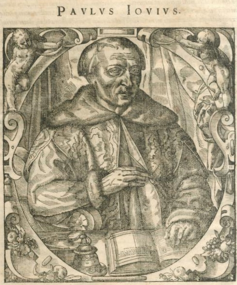 Portrait of Paolo Giovio in introduction to his Opera omnia, vol. 1, Basle, 1578